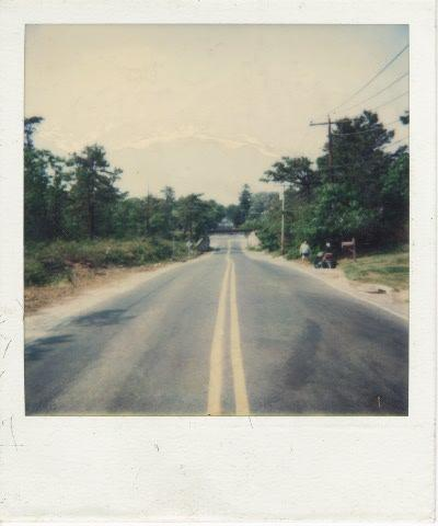 Polaroid pic of a northbound view of the railroad bridge over Old Medford Avenue in Medford, New York. Taken around 1987(I think).